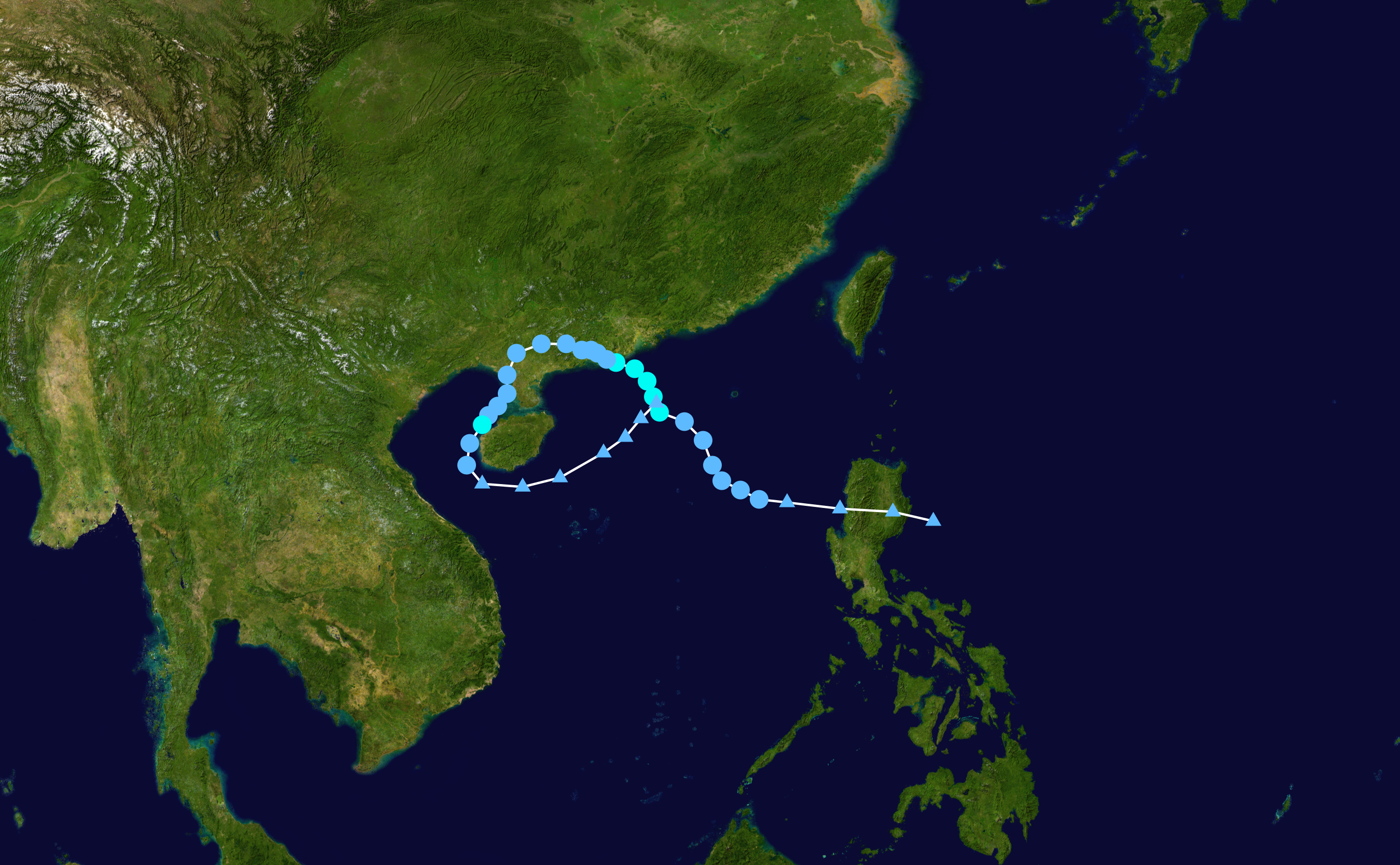 Track map of Tropical Storm Goni of the 2009 Pacific typhoon season. The points show the location of the storm at 6-hour intervals. The colour represents the storm's maximum sustained wind speeds as classified in the Saffir–Simpson scale (see below), and the shape of the data points represent the nature of the storm, according to the legend below. Saffir–Simpson scale Tropical depression≤38 mph≤62 km/h Category 3111–129 mph178–208 km/h Tropical storm39–73 mph63–118 km/h Category 4130–156 mph209–251 km/h Category 174–95 mph119–153 km/h Category 5≥157 mph≥252 km/h Category 296–110 mph154–177 km/h Unknown Storm type Tropical cyclone Subtropical cyclone Extratropical cyclone / Remnant low / Tropical disturbance / Monsoon depression